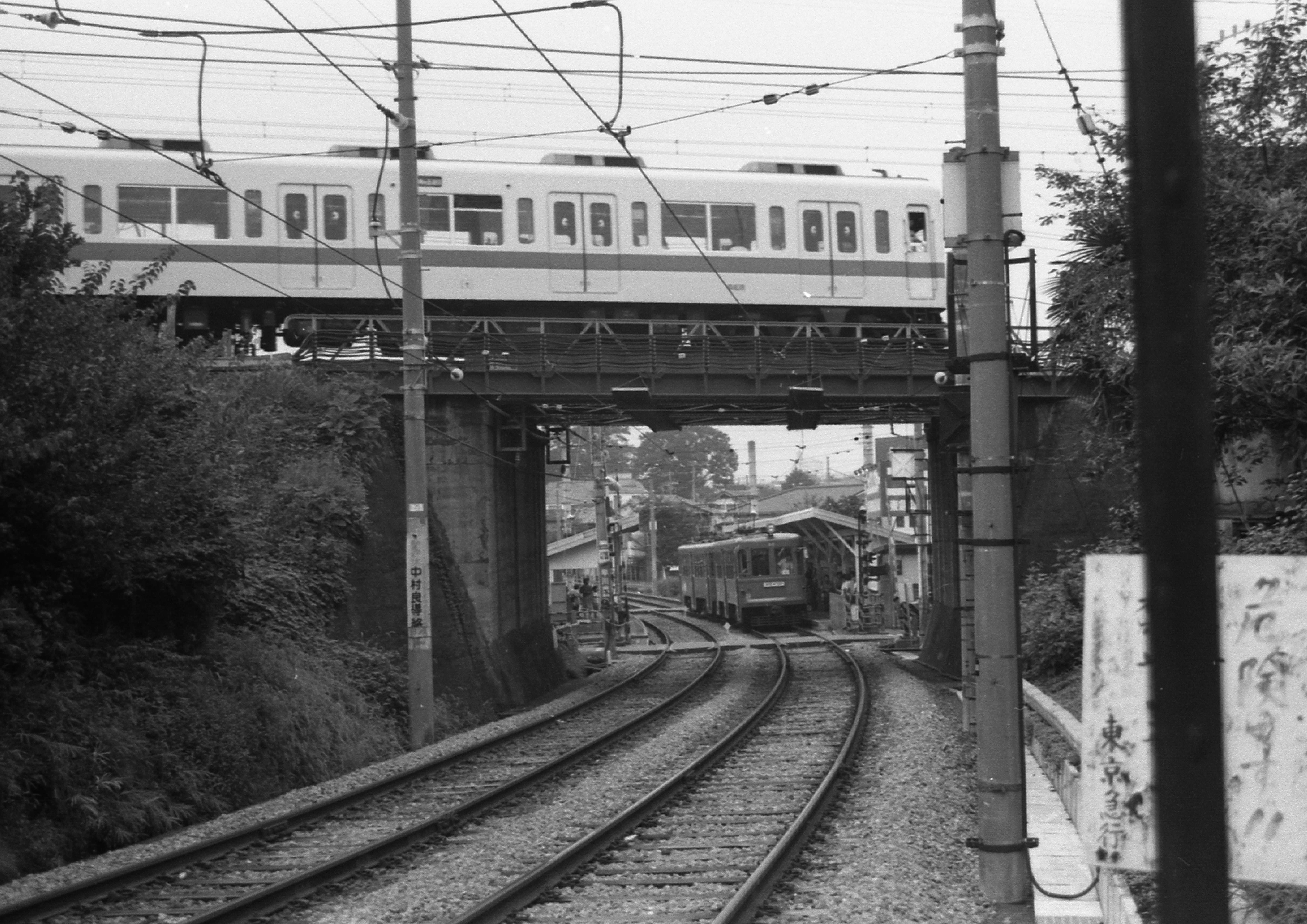 Tokyu 80 leaving Yamashita station and Odakyu 5200 leaving Gotokuji station